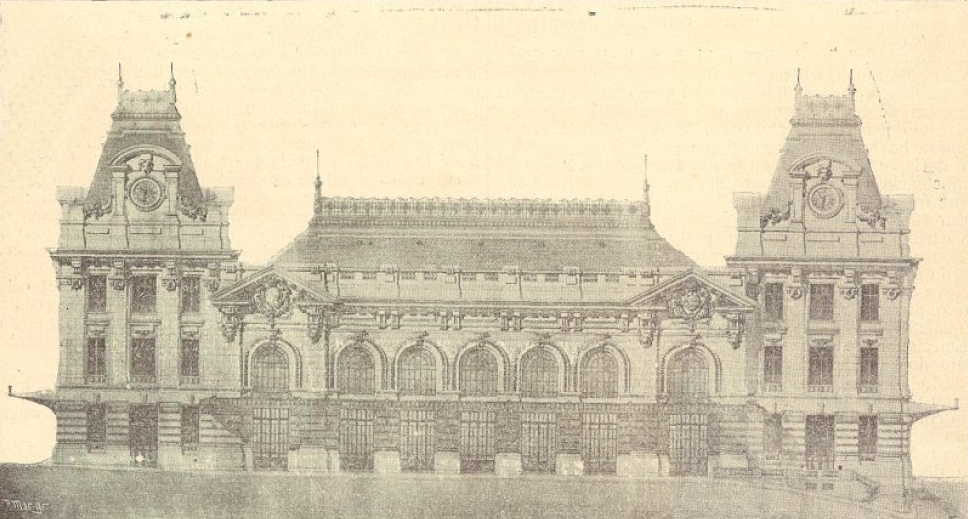 Project approved on the 22nd April 1904 for the façade of the São Bento Railway Station, in the city of Oporto, in Portugal. This image was published on the Gazeta dos Caminhos de Ferro magazine No. 412, of the 16th March 1905, and scanned by the Hemeroteca Municipal de Lisboa.